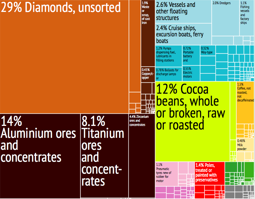 Sierra Leone Export Treemap from MIT Harvard Economic Complexity Observatory